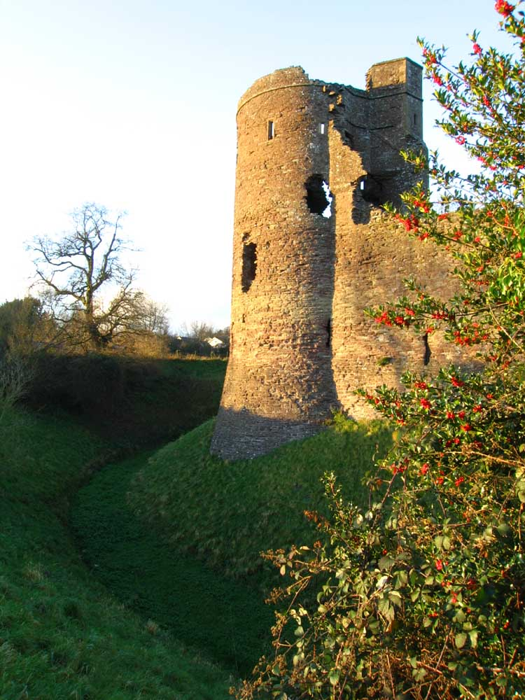 South West Moat, Grosmont Castle.